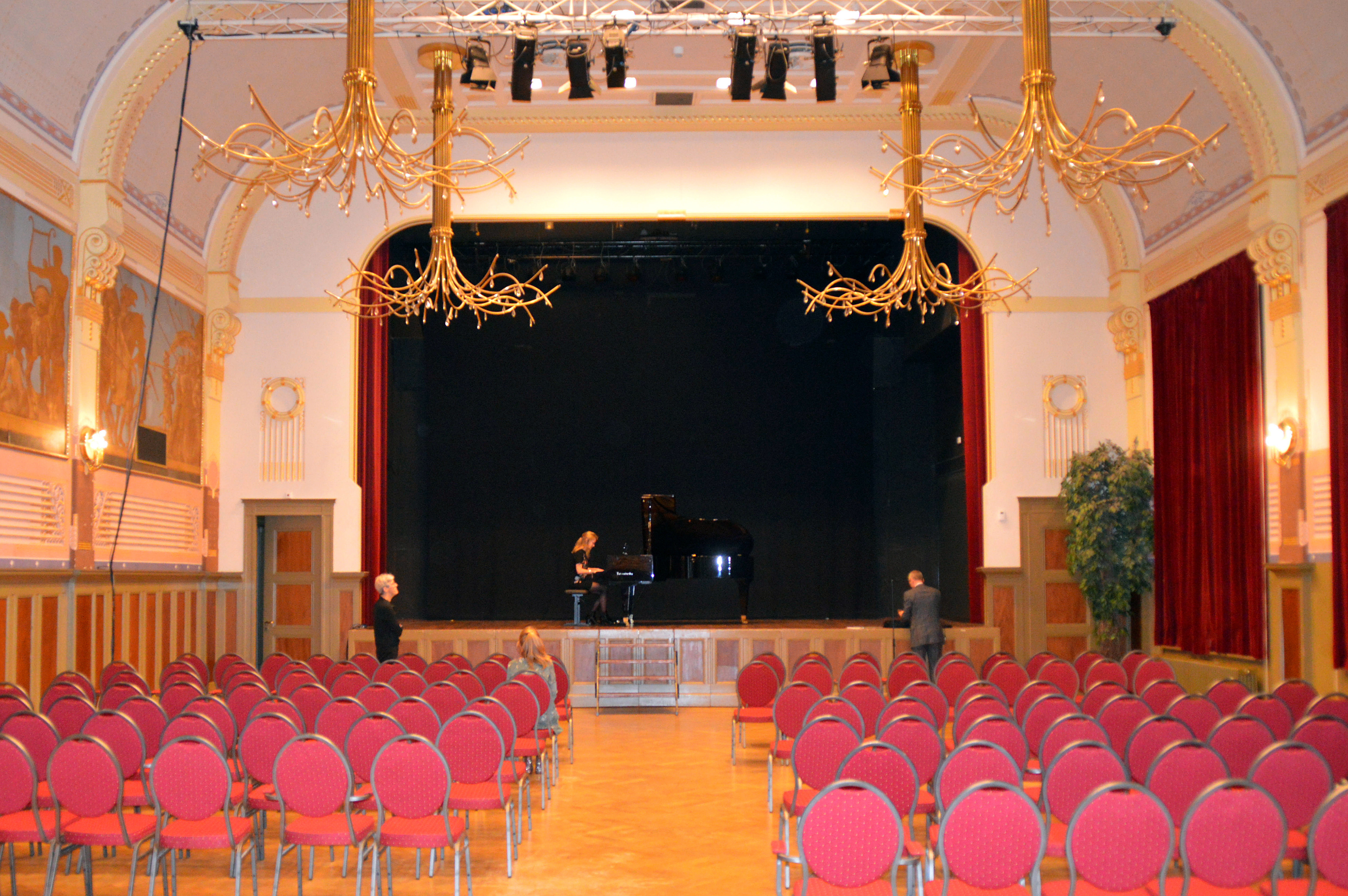 Small room Concertgebouw De Vereeniging Nijmegen Construction year 1917-1919 Oscar Leeuw Huib Luns and Egidius Everaerts